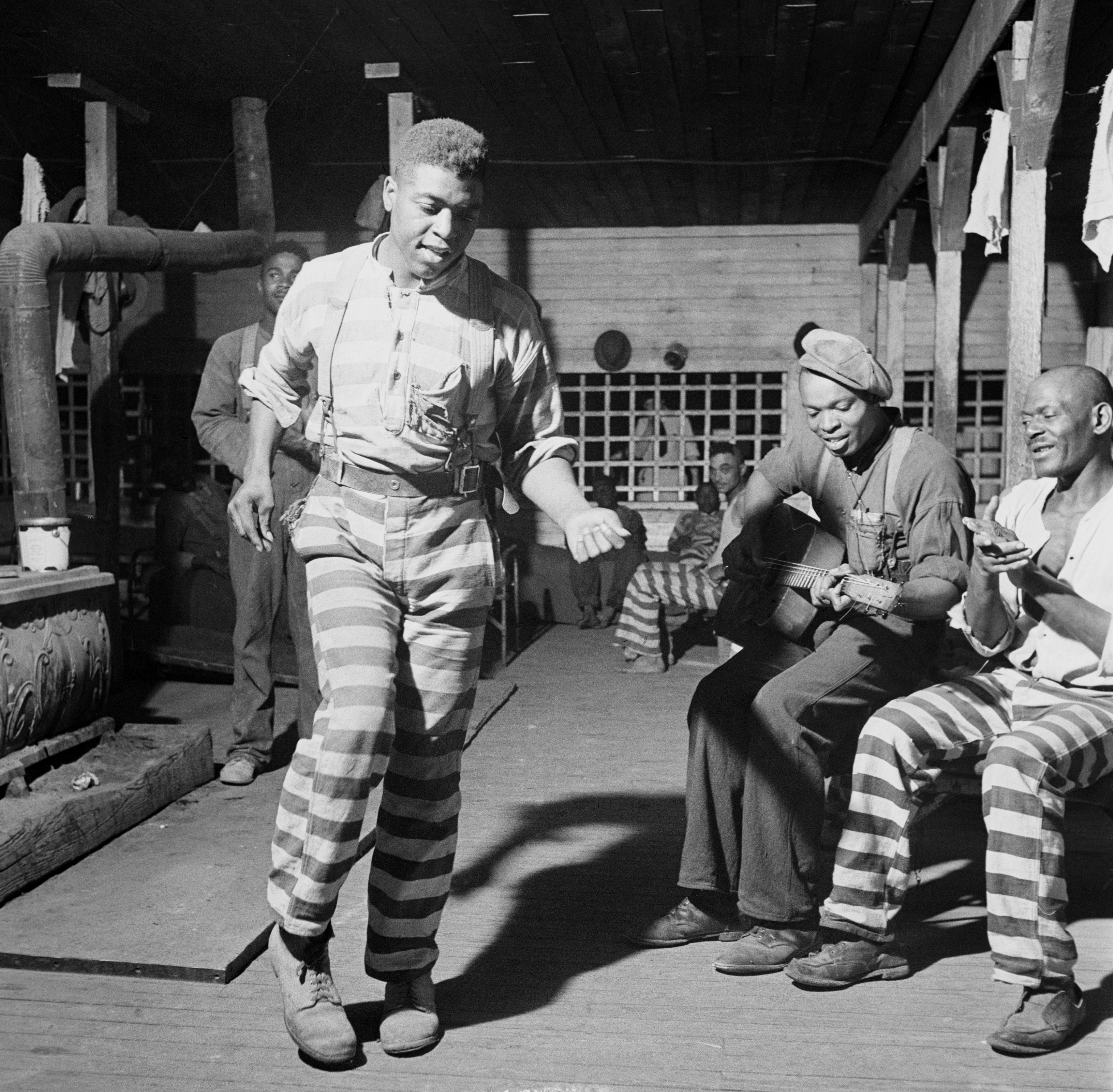 "In the convict camp in Greene County, Georgia", 1941. Blues musician Buddy Moss is playing guitar; other men unidentified. Man at left dancing.